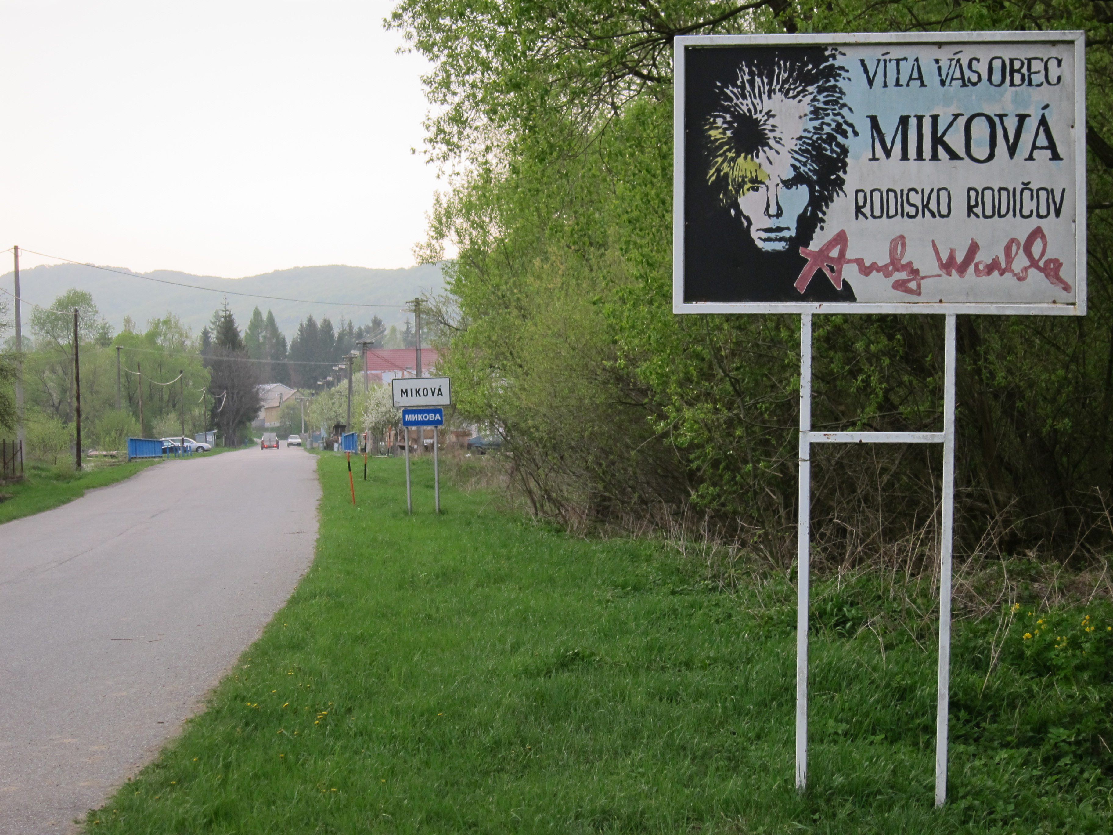 Miková, Slovakia – the motherland of Andy Warhol’s parents